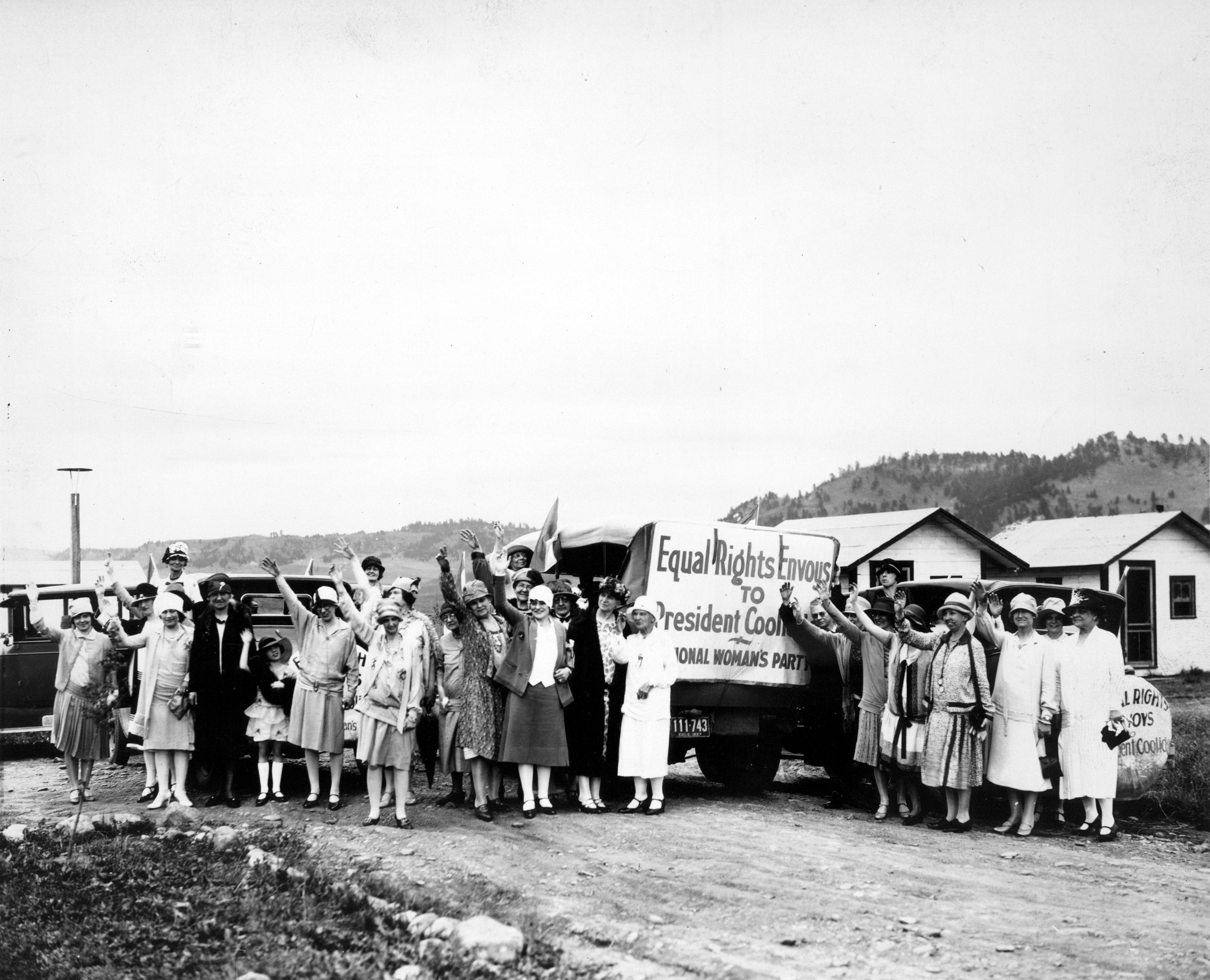 Title Equal Rights Envoys of the National Woman's Party who motored to Rapid City where the delegation, consisting principally of western women, saw President Coolidge and asked his aid for the Equal Rights Amendment now pending in Congress. The national delegates are here bidding farewell to Rapid City women who organized a branch in support of the Equal Rights program. Created / Published [1927 July] Subject Headings - National Woman's Party - Photographs - United States -- South Dakota -- Rapid City Genre Photographs Notes - Summary: Photograph of group of women standing outside waving. One vehicle behind them has banner, "Equal Rights Envoys to President Coolidge National Woman's Party." - Title transcribed from item. Medium 1 photograph: print; 8 x 10 in. Call Number Location: National Woman's Party Records, Group I, Container I:159, Folder: Black Hills, South Dakota, Deputation to President Coolidge Source Collection Records of the National Woman's Party Repository Manuscript Division Digital Id